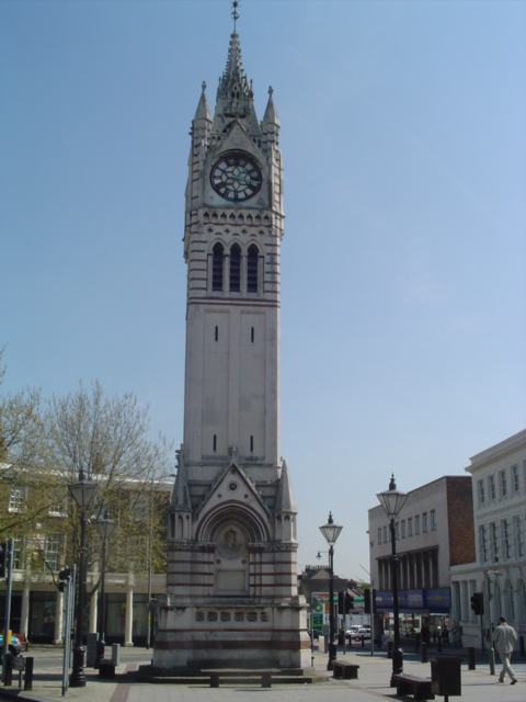 Gravesend clock tower